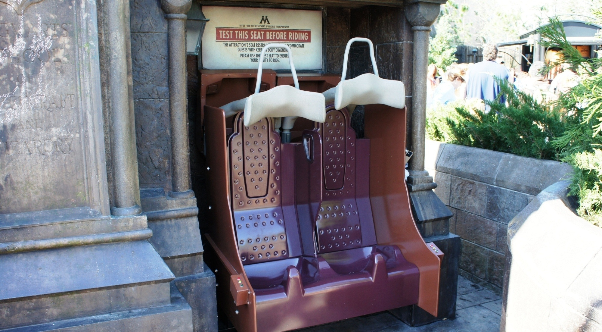 Harry Potter and the Forbidden Journey test seat outside the ride. Islands of Adventure.